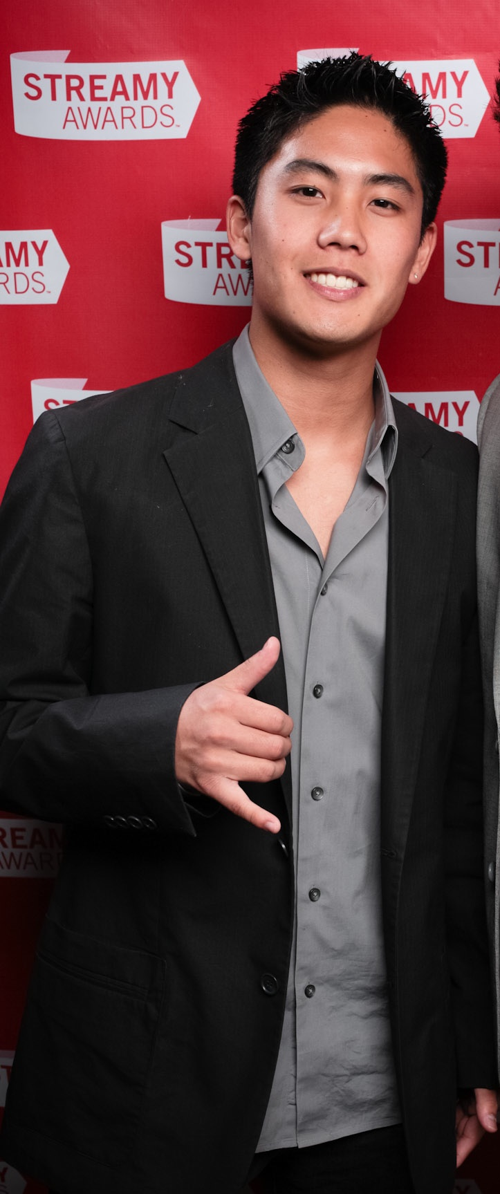 Ryan Higa at the 2nd Streamy Awards.